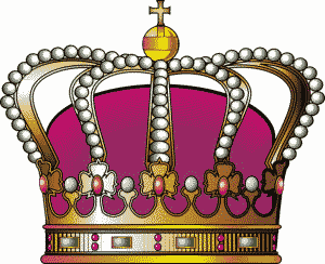 Grossherzogskrone - German Greatprince Crown